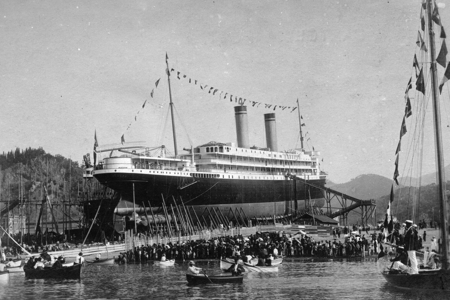 The SS "Principessa Jolanda" prior to launch and sinking at Cantiere Navale di Riva Trigoso, near Genoa, Italy